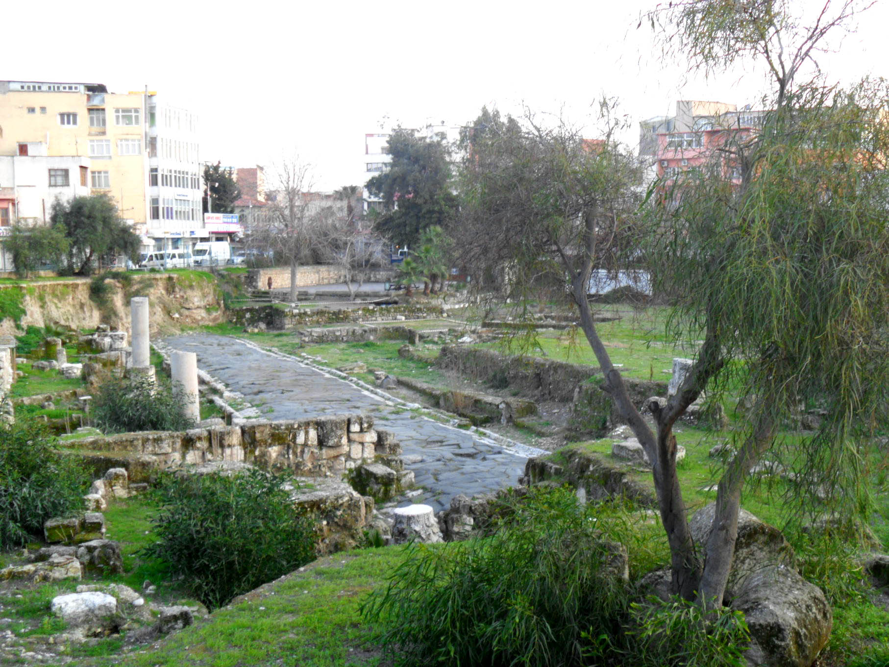 Ancient road in Tarsus